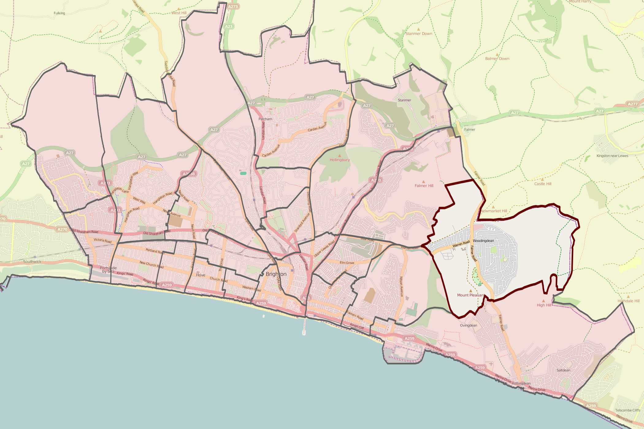 Map of Brighton and Hove wards with one ward highlighted